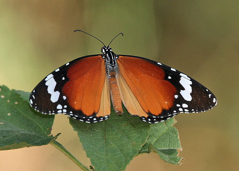 Plain Tiger Danaus chrysippus at Sindhrot in Vadodara District of Gujarat, India.